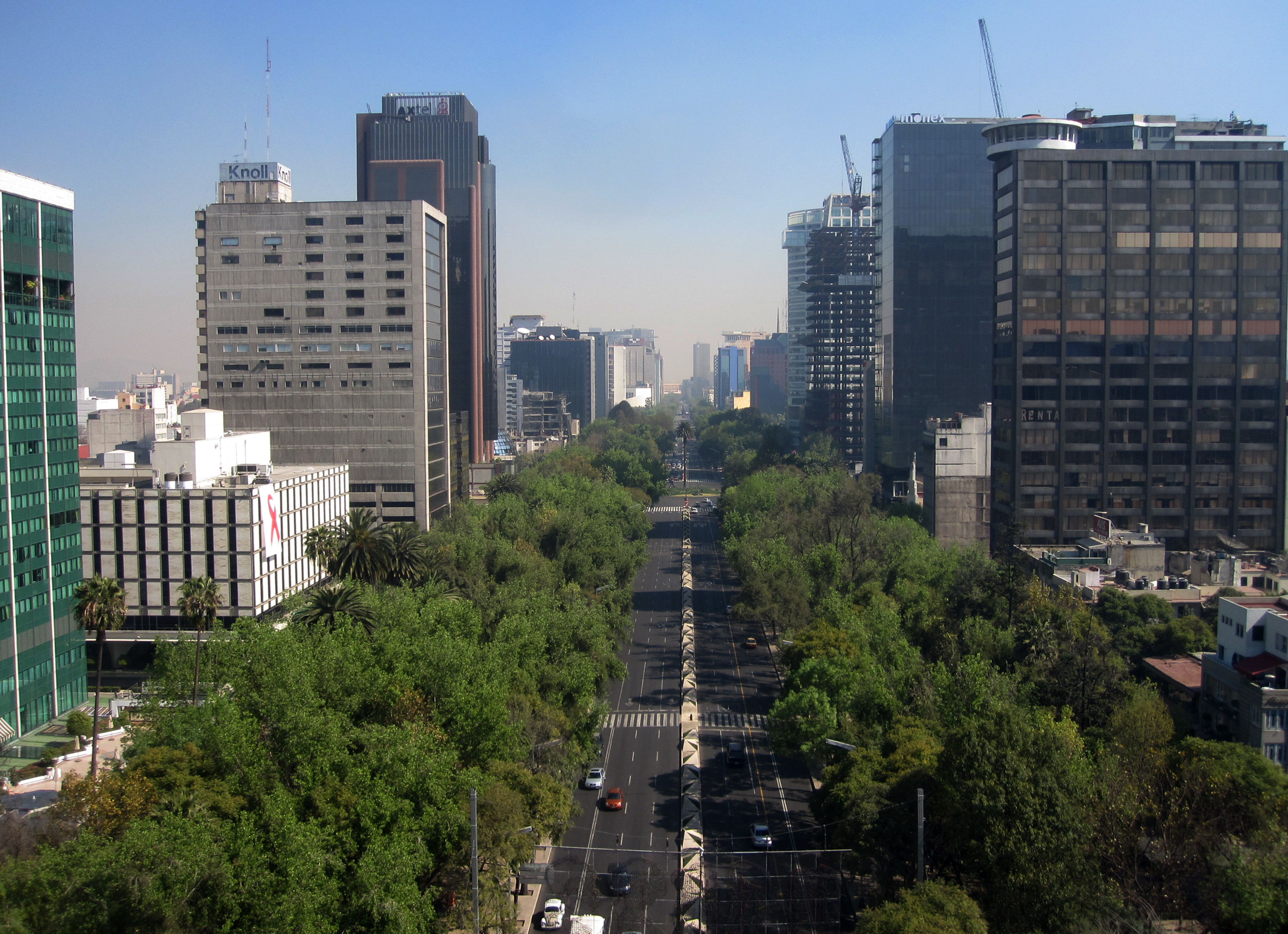 Paseo de la Reforma — seen northeastwards from El Ángel de la Independencia